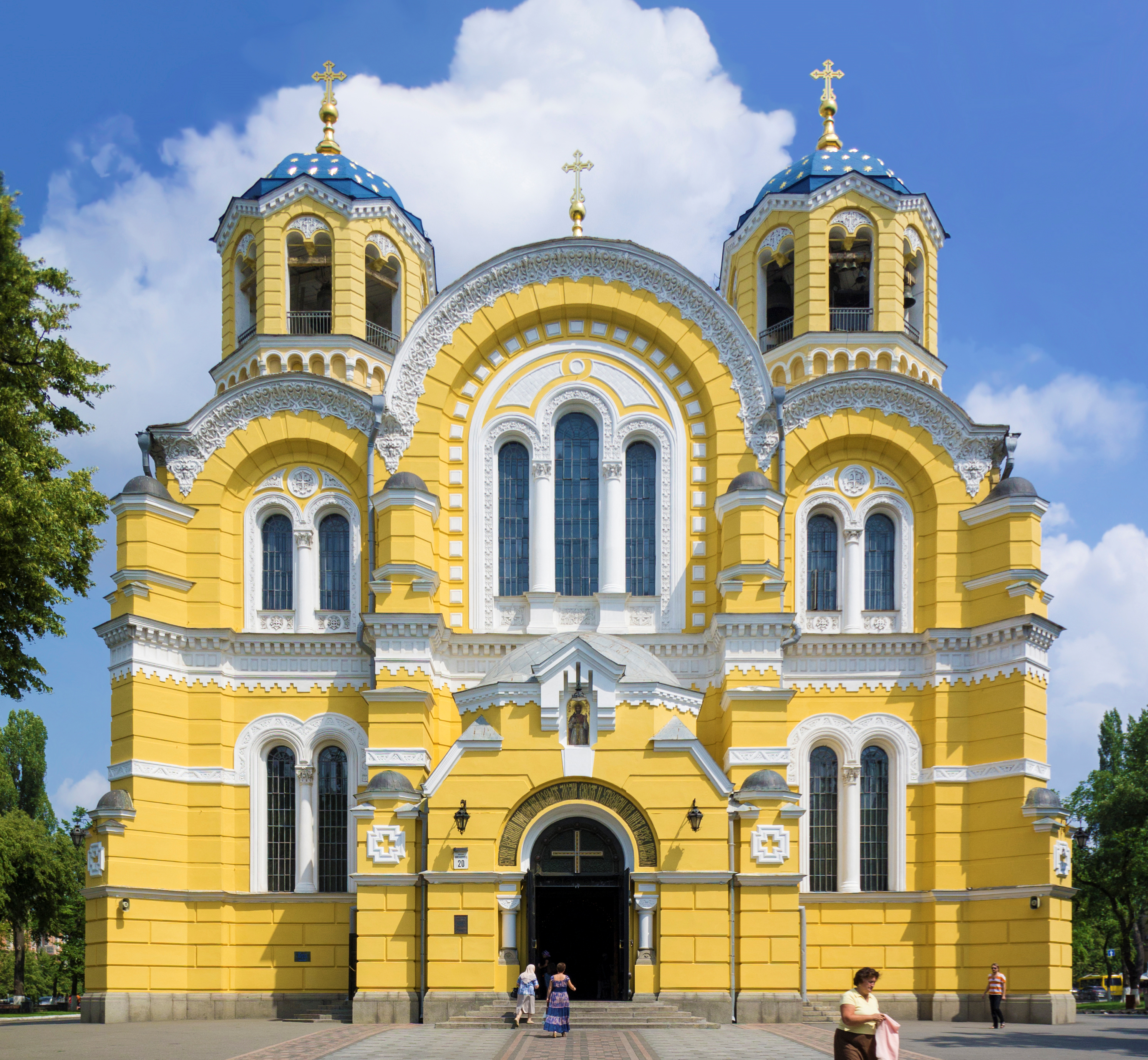 St Volodymyr's Cathedral in Kyiv, Ukraine.